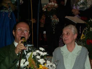 Elena Gohman photo. 9 Dec 2005. On left side - secretary of Saratov's filial of Composers Union of Russia - E. Biktashev